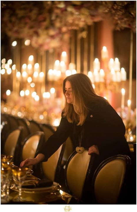 Sarah Haywood in Yorkshire, 2015